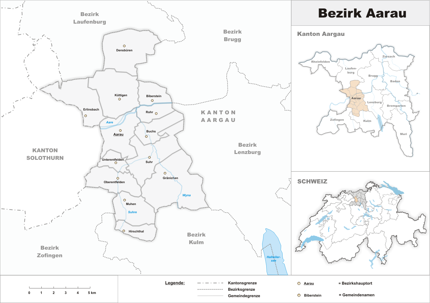 Municipalities in the district of Aarau